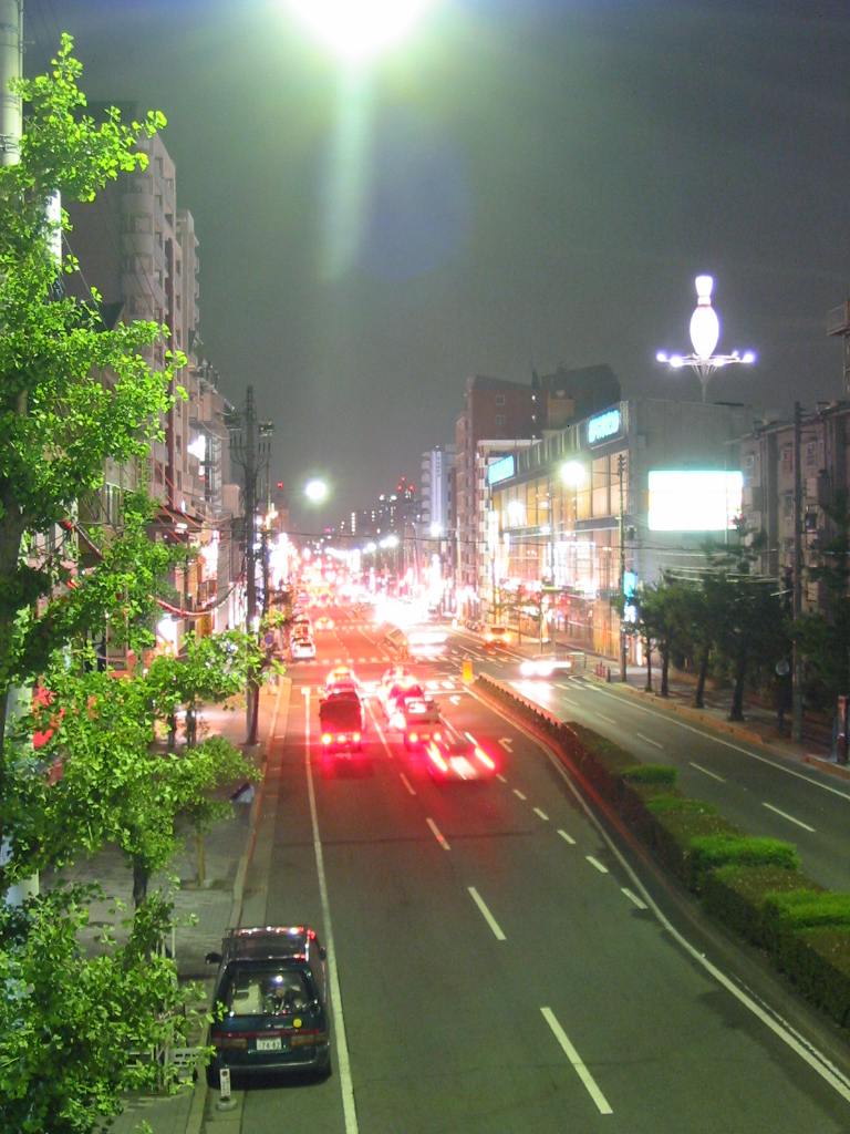 Japan's National Route 2 passing through Kobe; taken from a pedestrian walkway